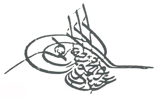 Tughra (i.e., seal or signature) of Abdülmecid I, Sultan of the Ottoman Empire (1839-1861). An explanation of the different elements composing the tughra can be found here.